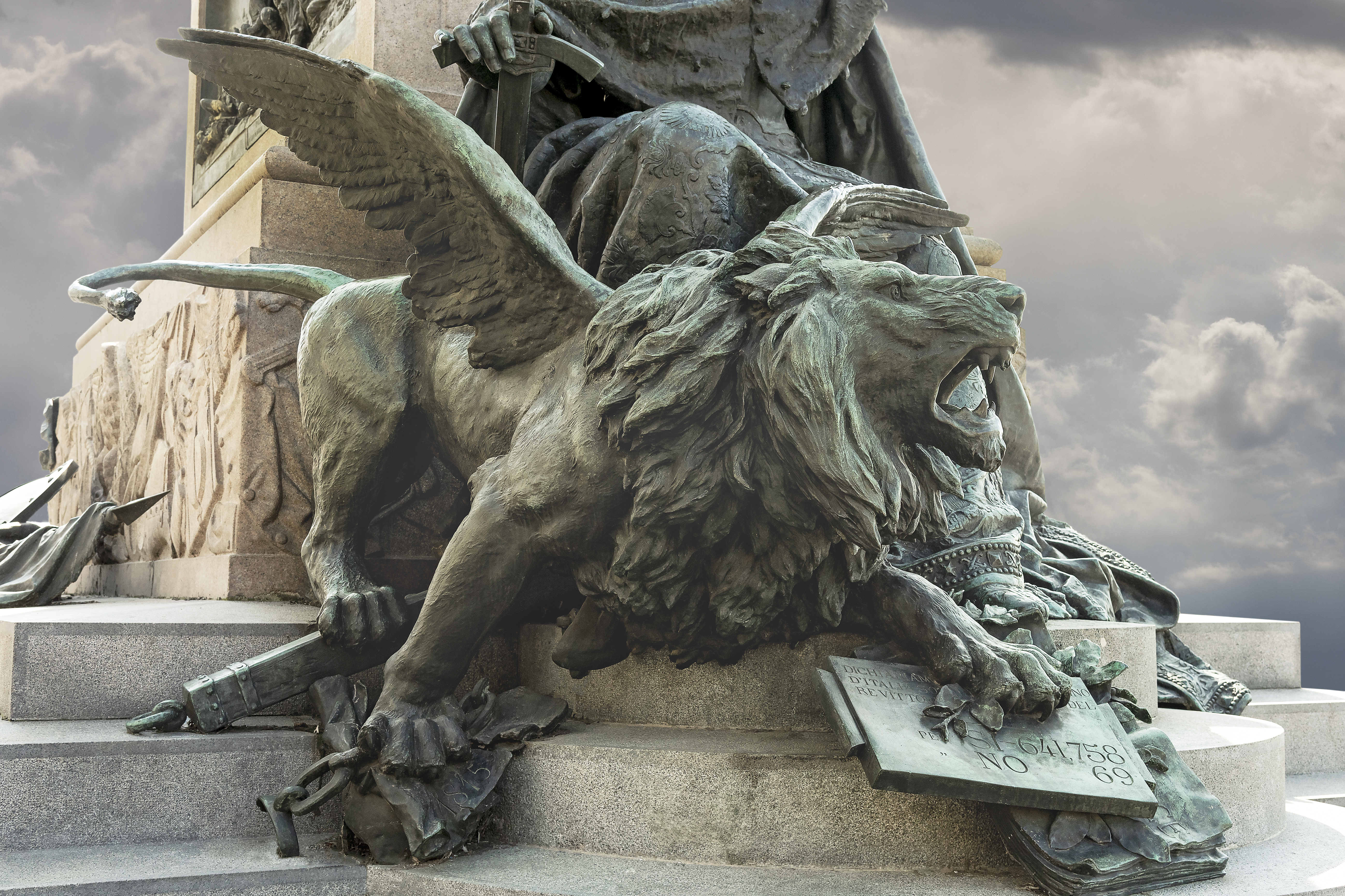 Monument of Victor Emmanuel II located on the Riva degli Schiavoni. The Lion of San Marco roaring it is the work of Ettore Ferrari and was erected in 1887.